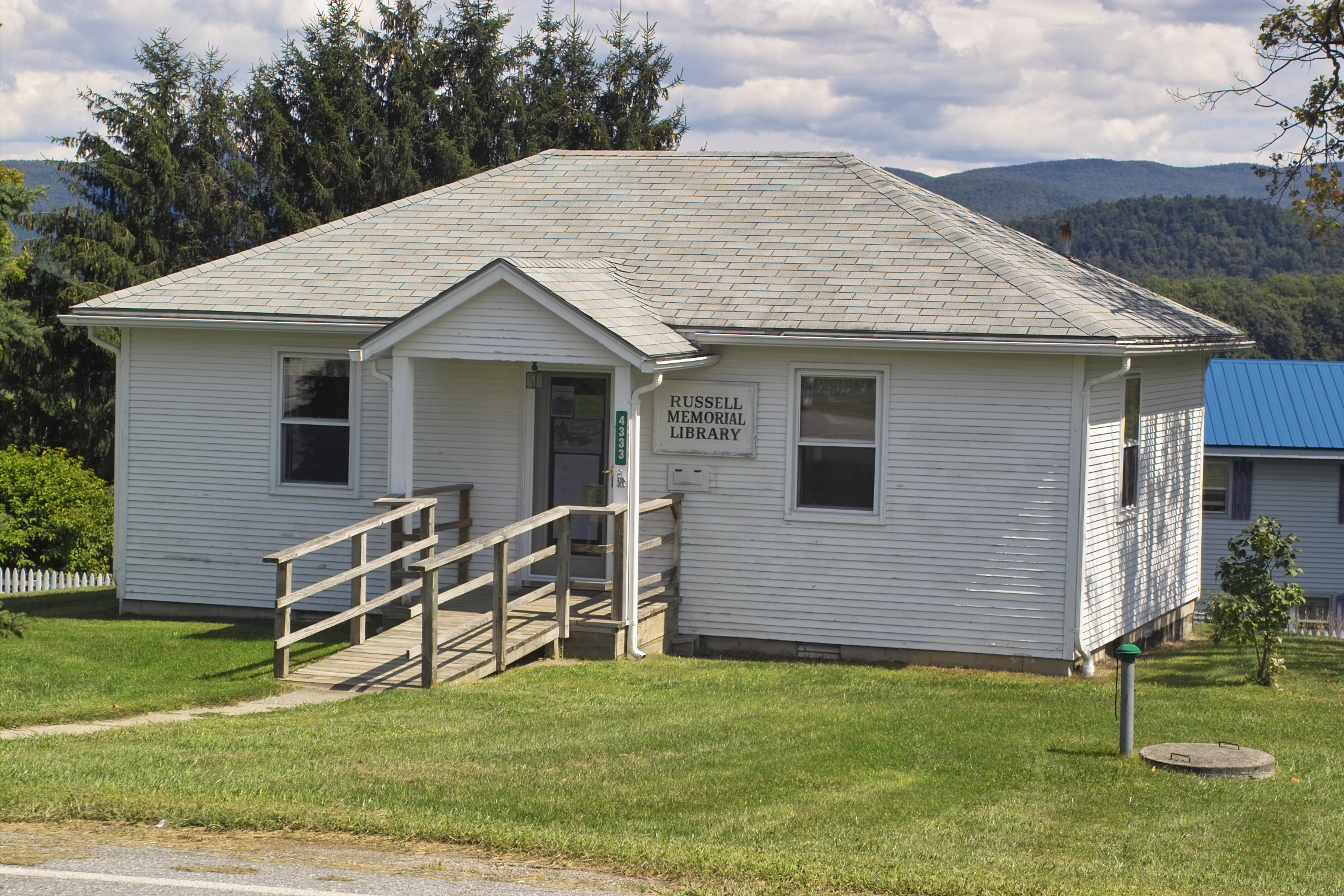 Russell Memorial Library in Monkton, Vermont, USA.